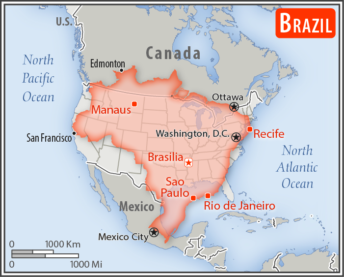 Comparison of the areas of two country. The area of Brazil with biggest cities (red) overlay the area of the United States of America (gray background).